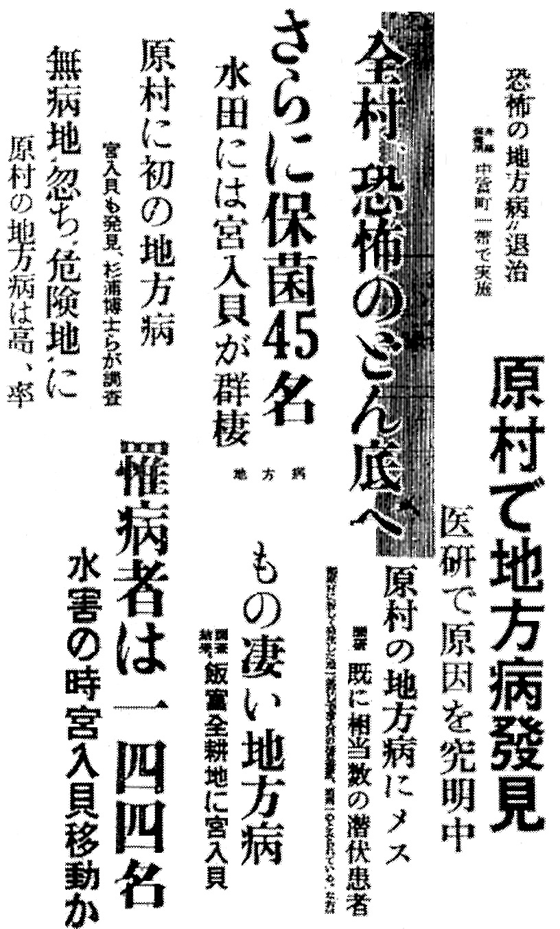 To report a new endemic area found of Schistosoma japonicum, Yamanashi prefectural heading of each newspaper. 1955.